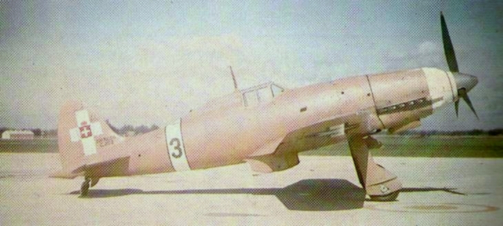 An Italian Macchi C.202 fighter at Wright-Patterson Field outside Dayton, Ohio, for United States Army Air Forces evaluation. The aircraft had been captured in Italy during the Italian campaign of World War II.